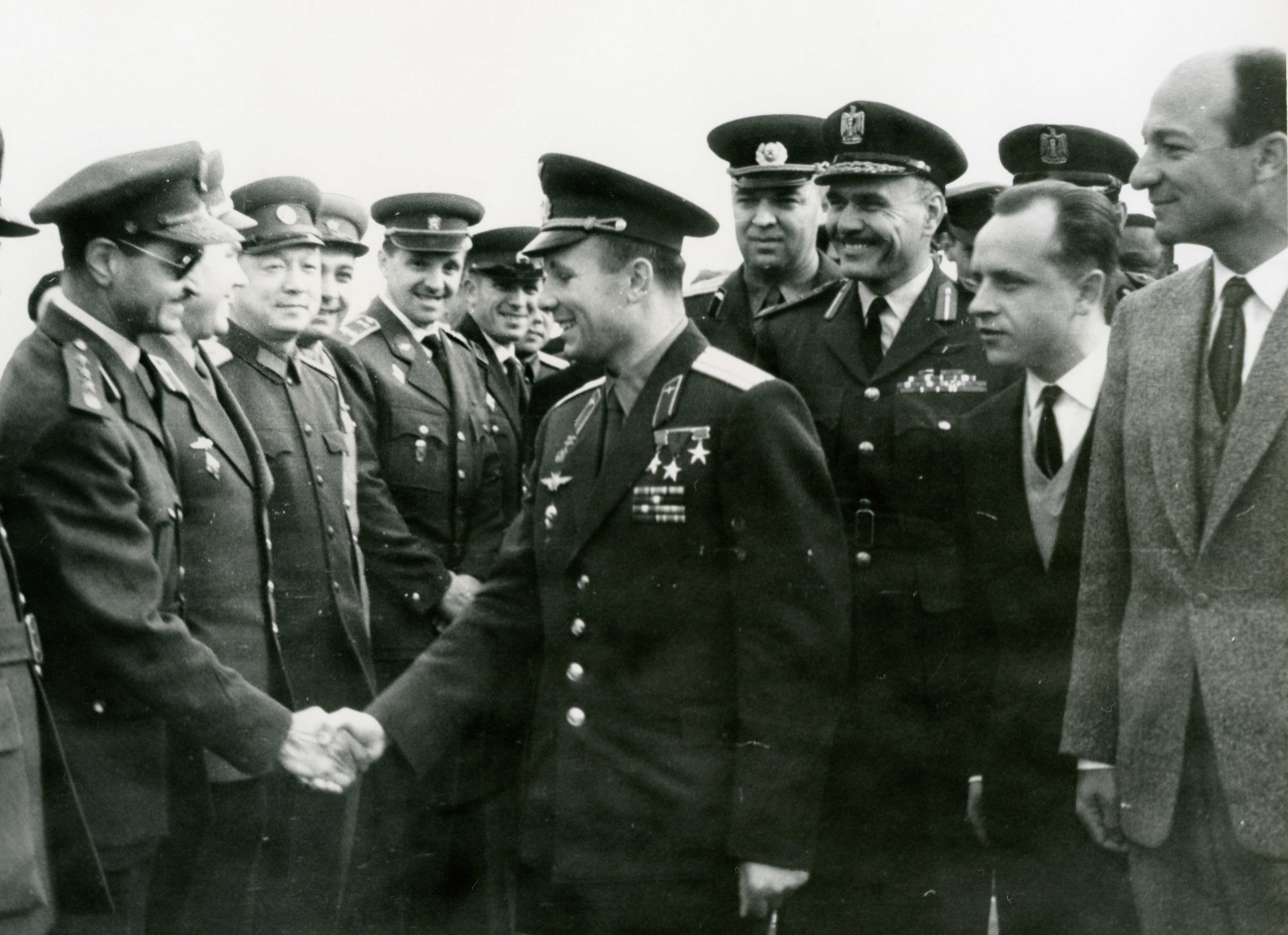 Yuri Gagarin and Zakaria Mohieddin (the first on the right), Cairo Almaza Air Base, Egypt, 05.02.1962